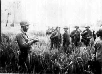 U.S. 2nd Marine Raider Captain Schreir briefs Marines during a patrol on Guadalcanal in November 1942.